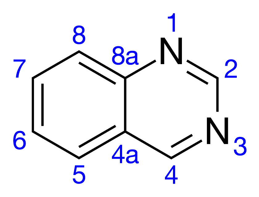 Chemical structure of Quinazoline created with ChemDraw.